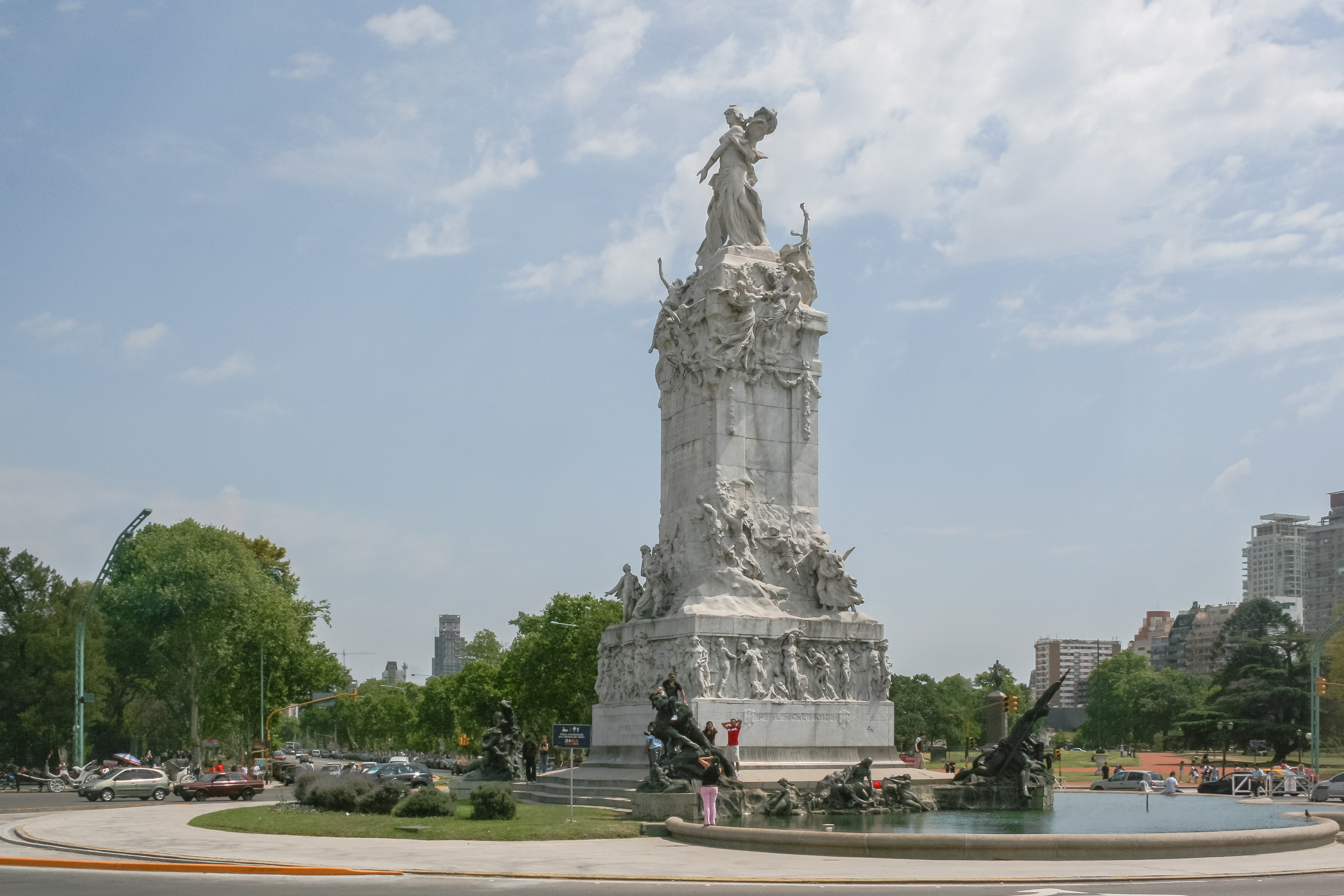 Monumento a la Carta Magna, Buenos Aires, Argentina